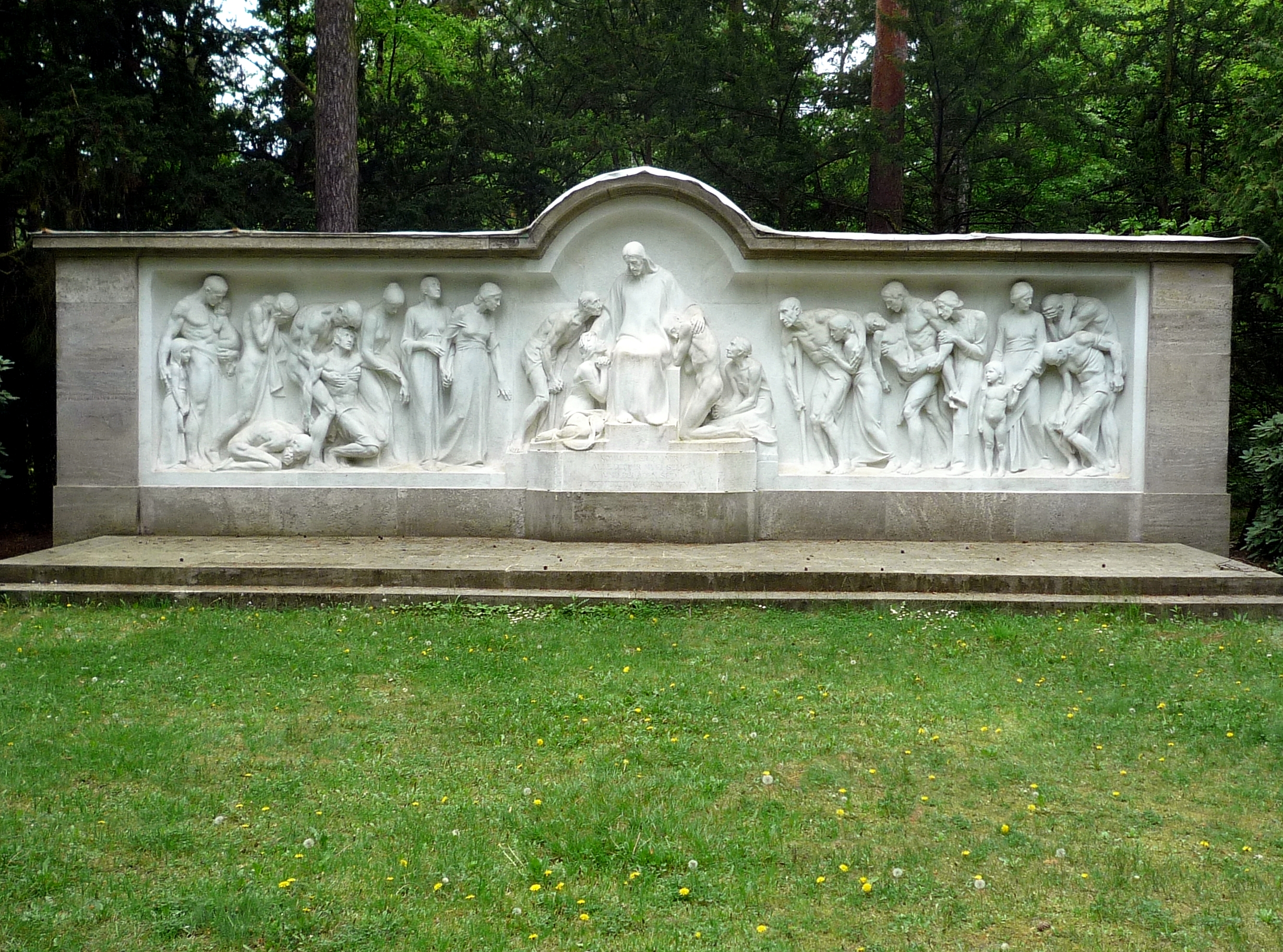 Südwestkirchhof (South-West-churchyard) Stahnsdorf near Berlin. Jesus-Christ-Monument, the sculptor was Ludwig Manzel (1858-1936)